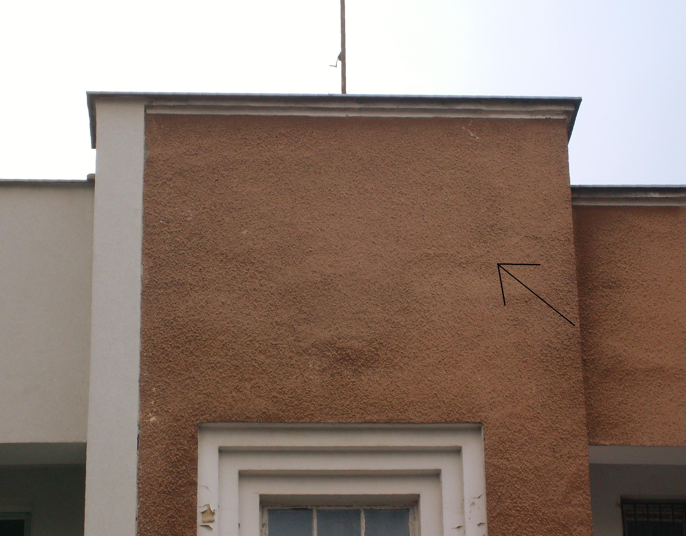 Sochaczew - emblem of the Third Reich on building where was seat of PZPR